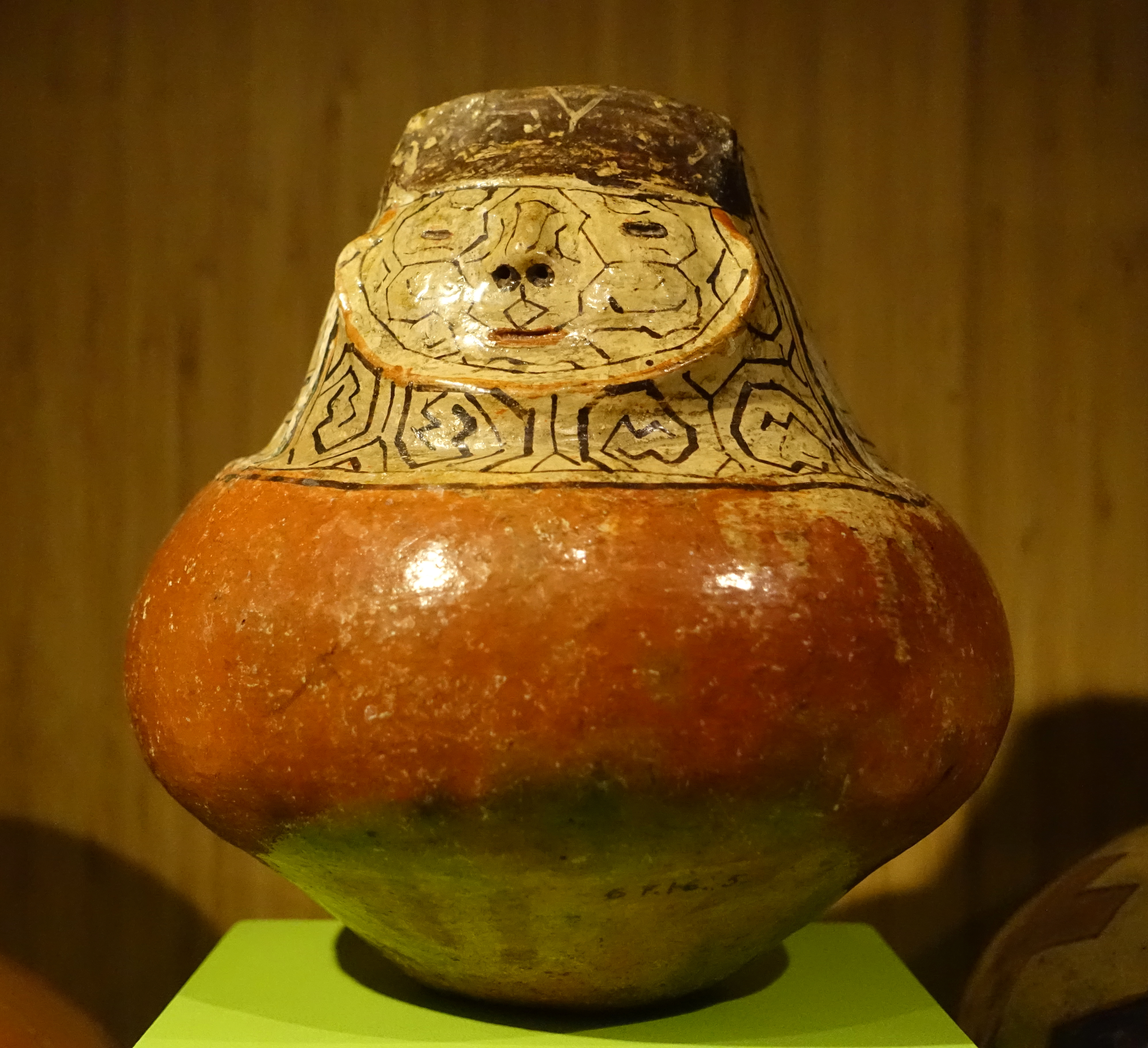 Exhibit in the Etnografiska museet, Stockholm, Sweden. This work is old enough so that it is in the public domain. Shipibo This is a photo of an artwork at the Museum of Ethnography in Sweden with the identifier: 1967.16.0005